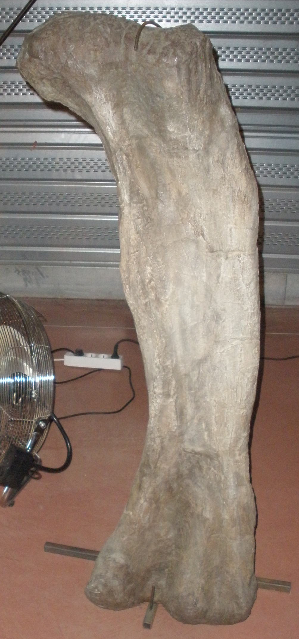 fossil femur of Phuwiangosaurus sirindhornae, an extinct sauropod